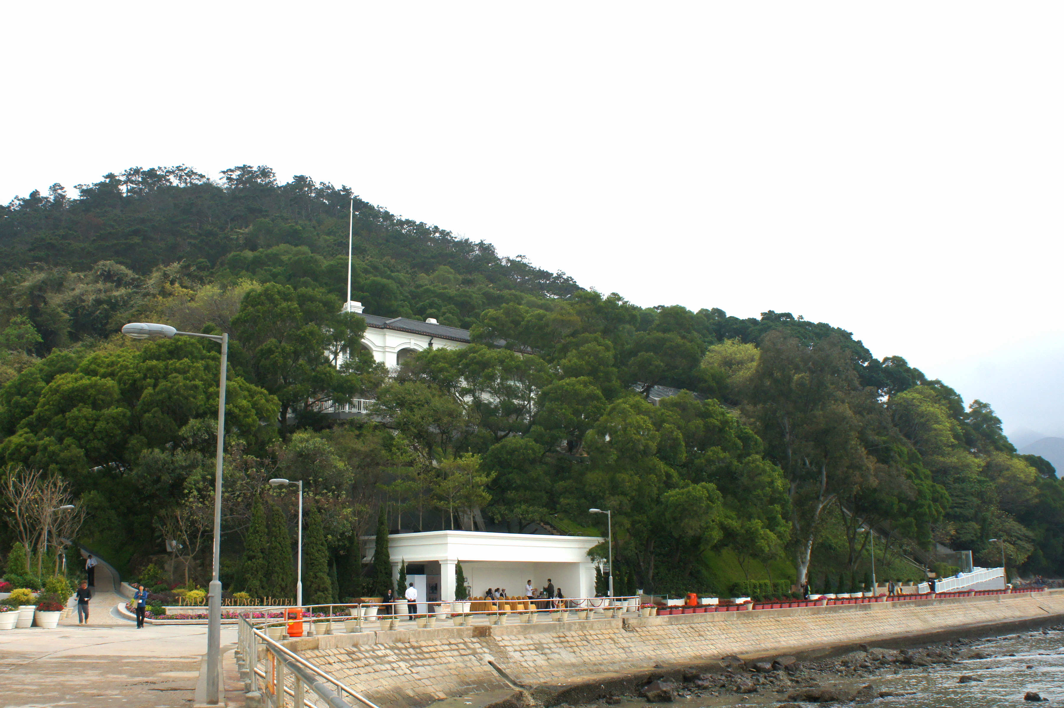 Tai O Heritage Hotel, view from the Shek Tsai Po Ferry Pier, Tai O, Lantau Island, Hong Kong.